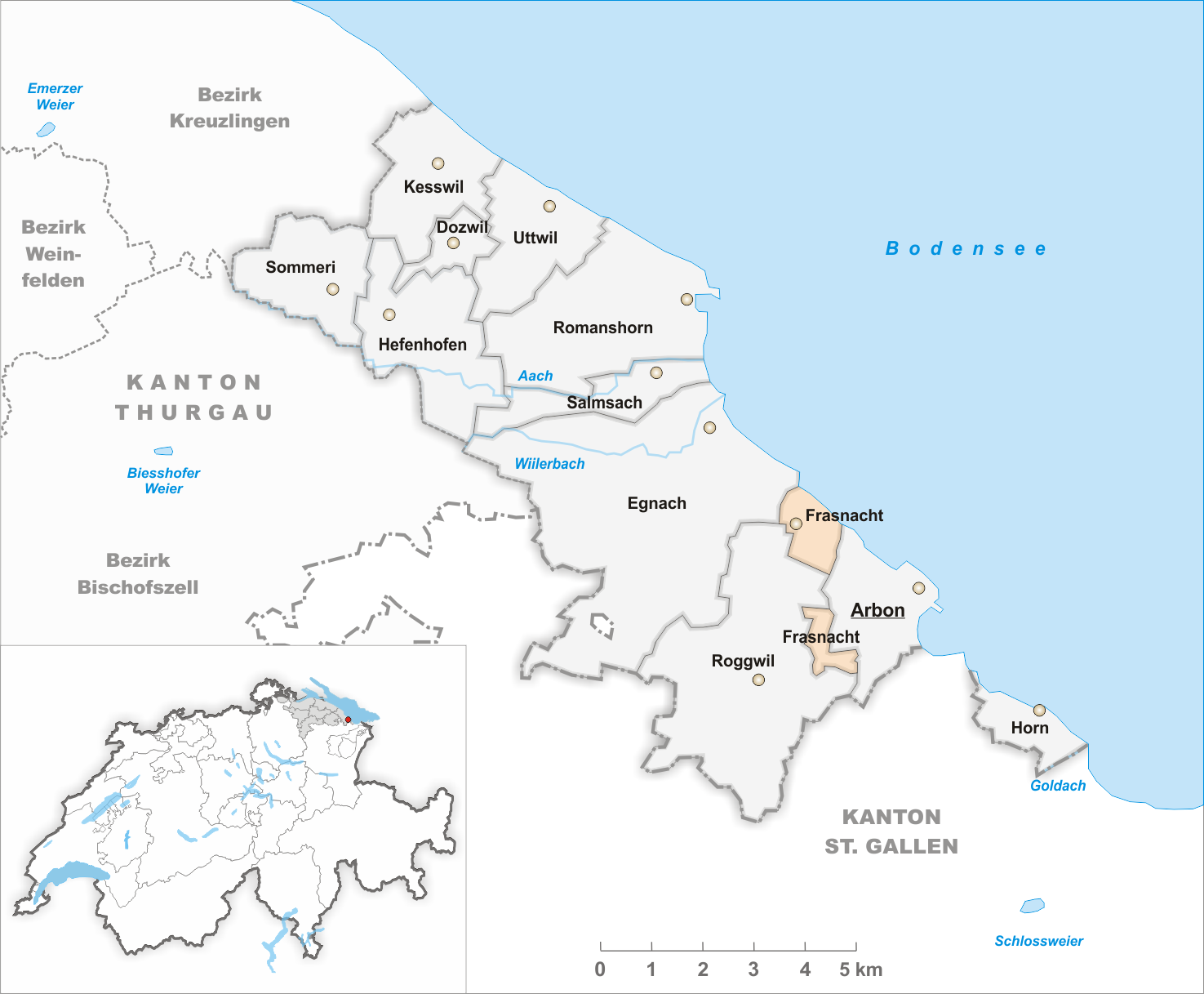 Municipality Hemmerswil